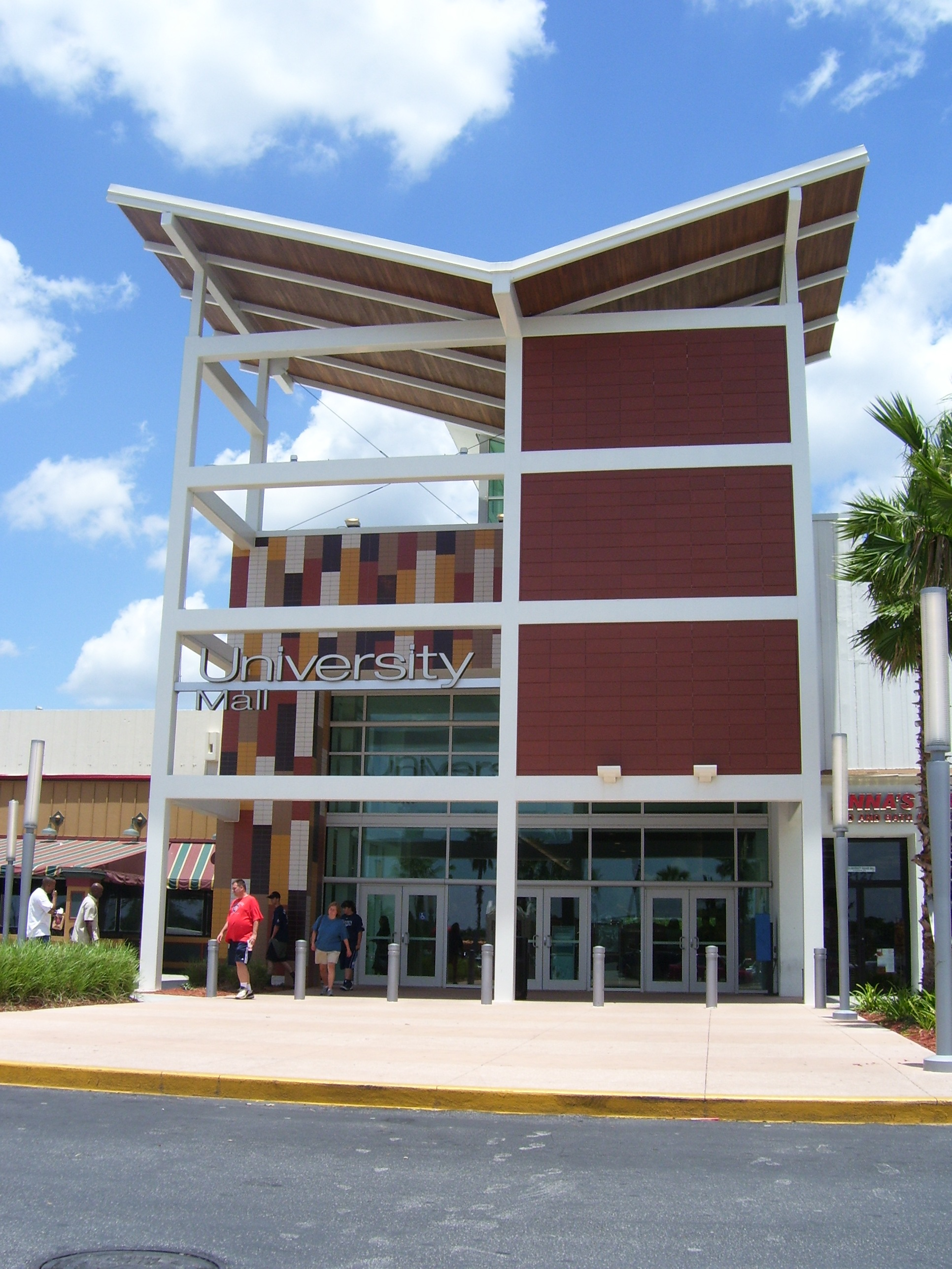 Taken by W.Slupecki